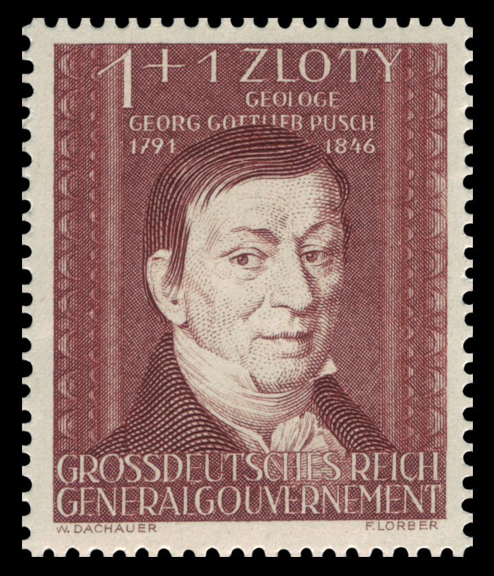 VIPs of culture II Ausgabepreis: 1 + 1 Złoty First Day of Issue / Erstausgabetag: 15. Juli 1944 Michel-Katalog-Nr: 124 (Generalgouvernement)